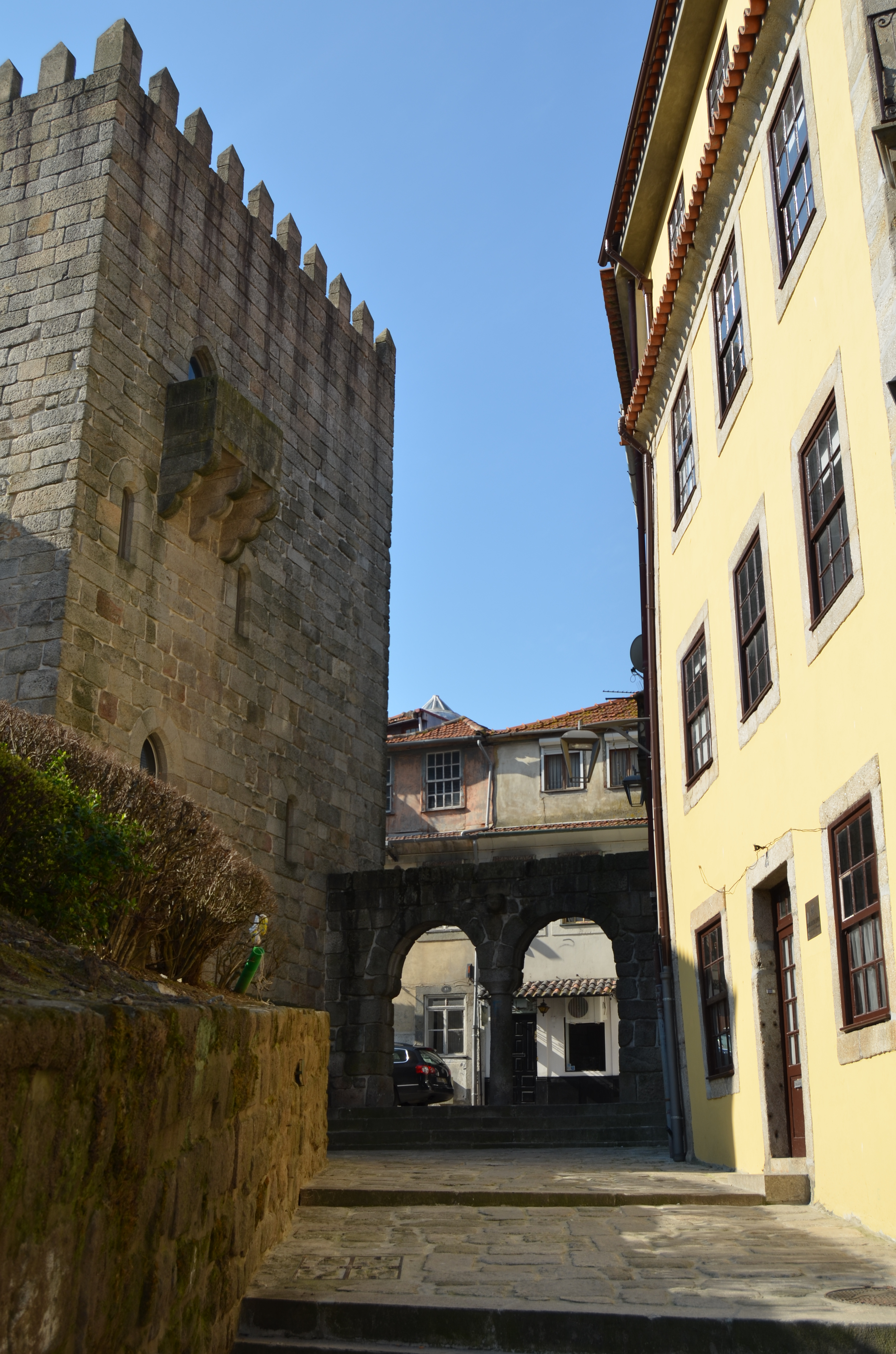 The time gate